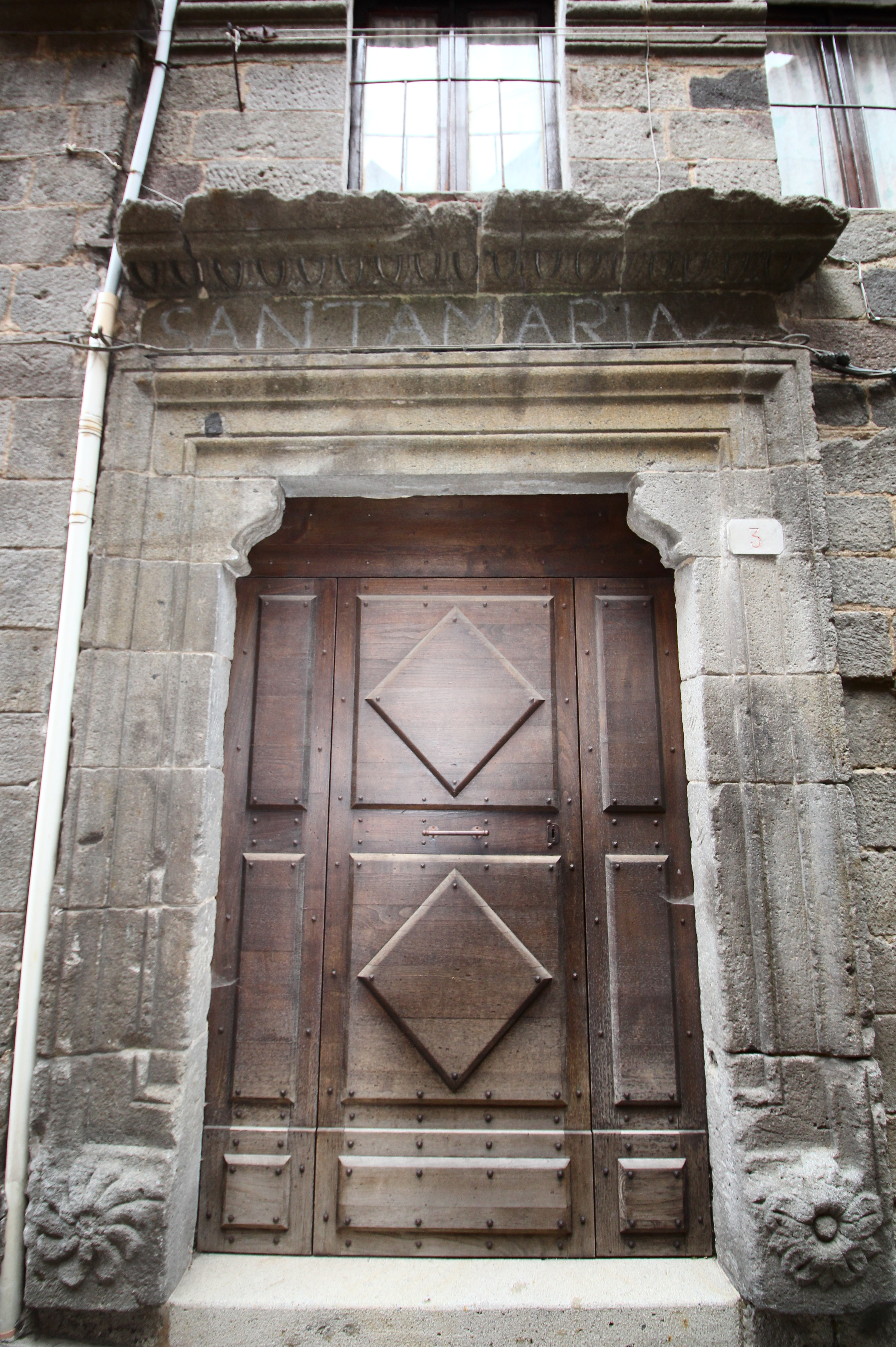 Santa Maria ad Valetudinarium, ex-Hospital with church, Abbadia San Salvatore, Province of Siena, Tuscany, Italy.